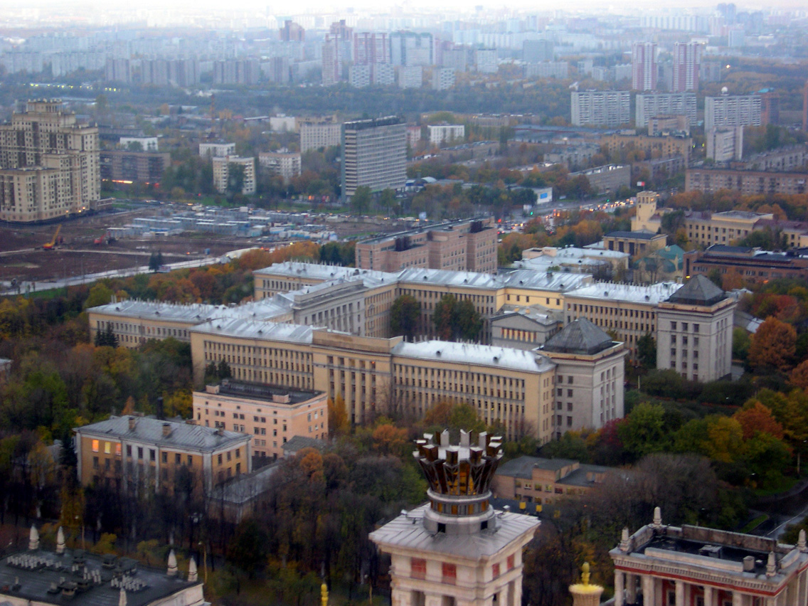 Soil Science faculty of Moscow State University, photo from 27 floor of MSU Main Building